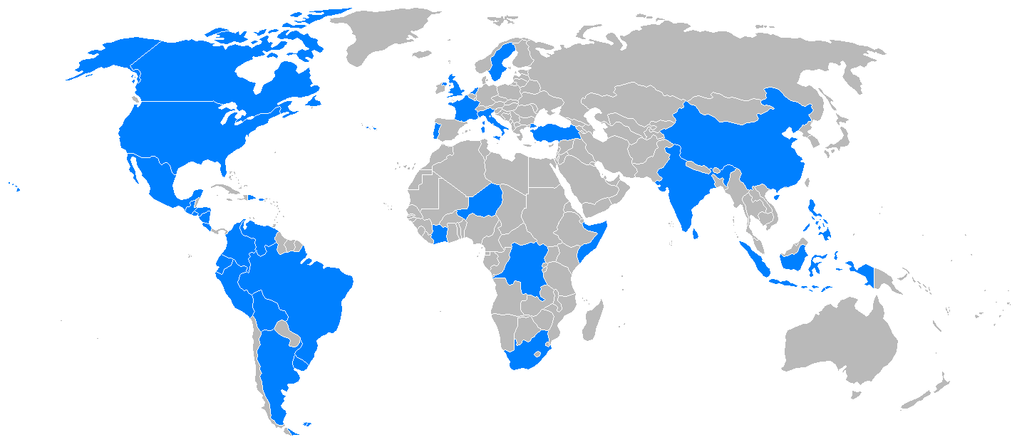 World map of Beechcraft Model 18 operators